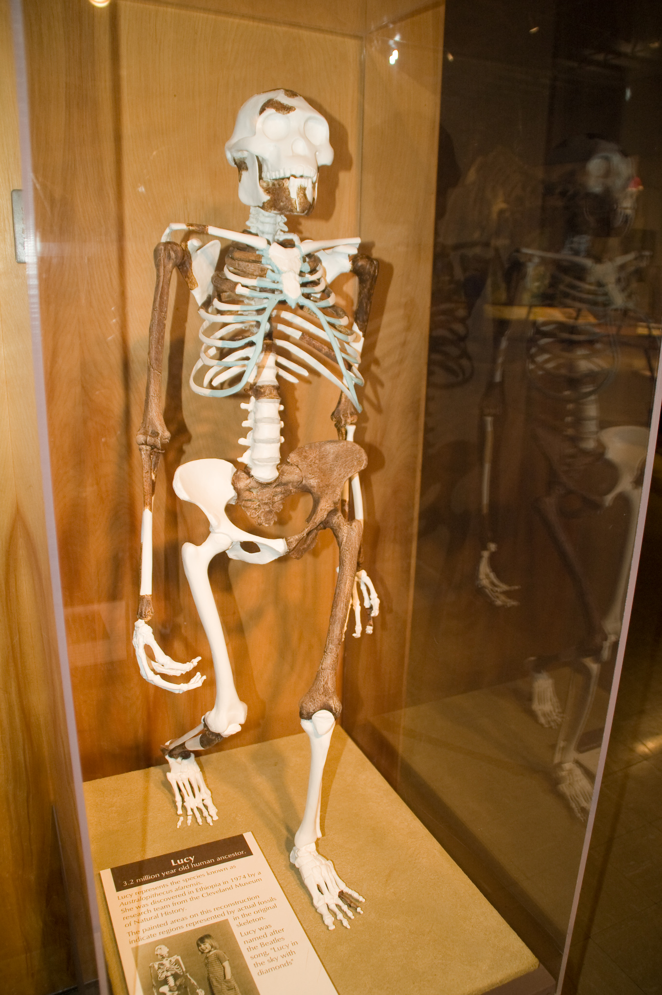 Lucy - Cleveland Natural History Museum